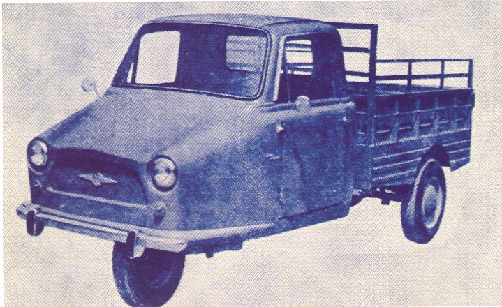 An old image of a Motoemil three-wheeler, from my book "Made in Greece" (cited in the Motoemil article).